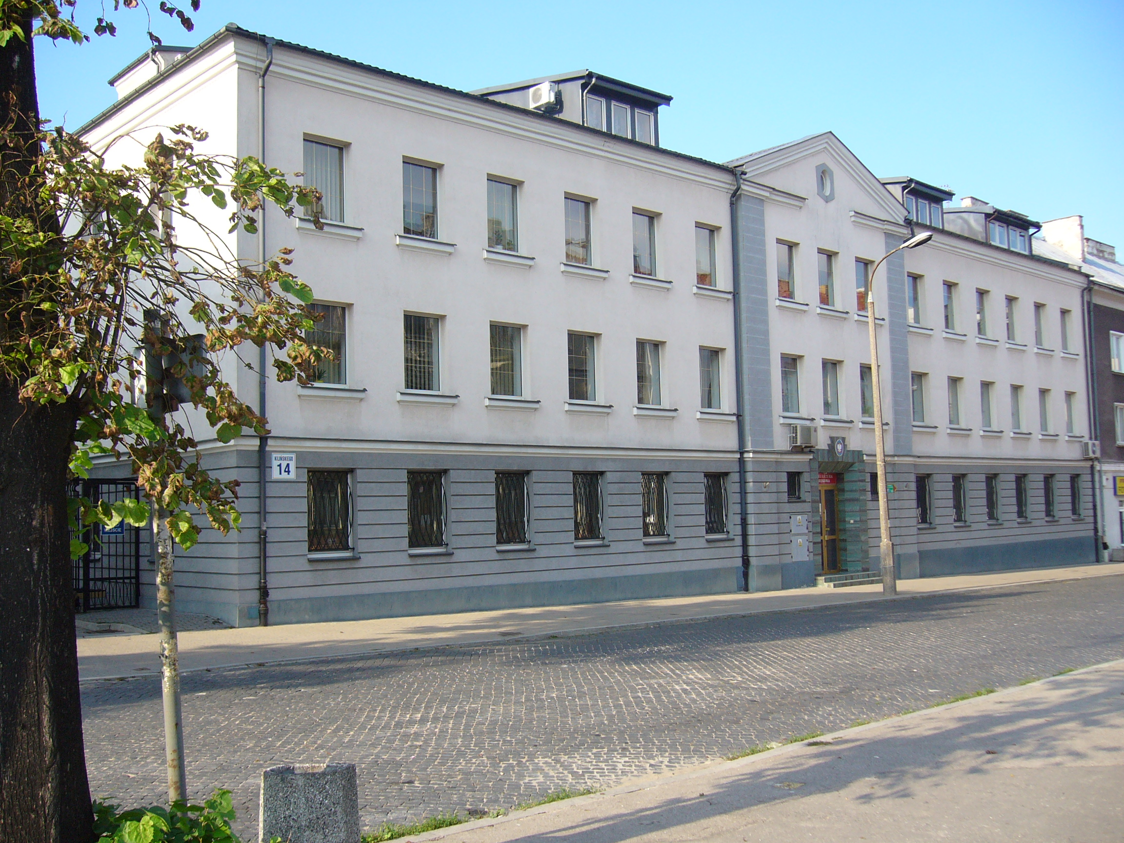 Building of Regional Prosecutor’s Office in Białystok, Kilińskiego 14 street.